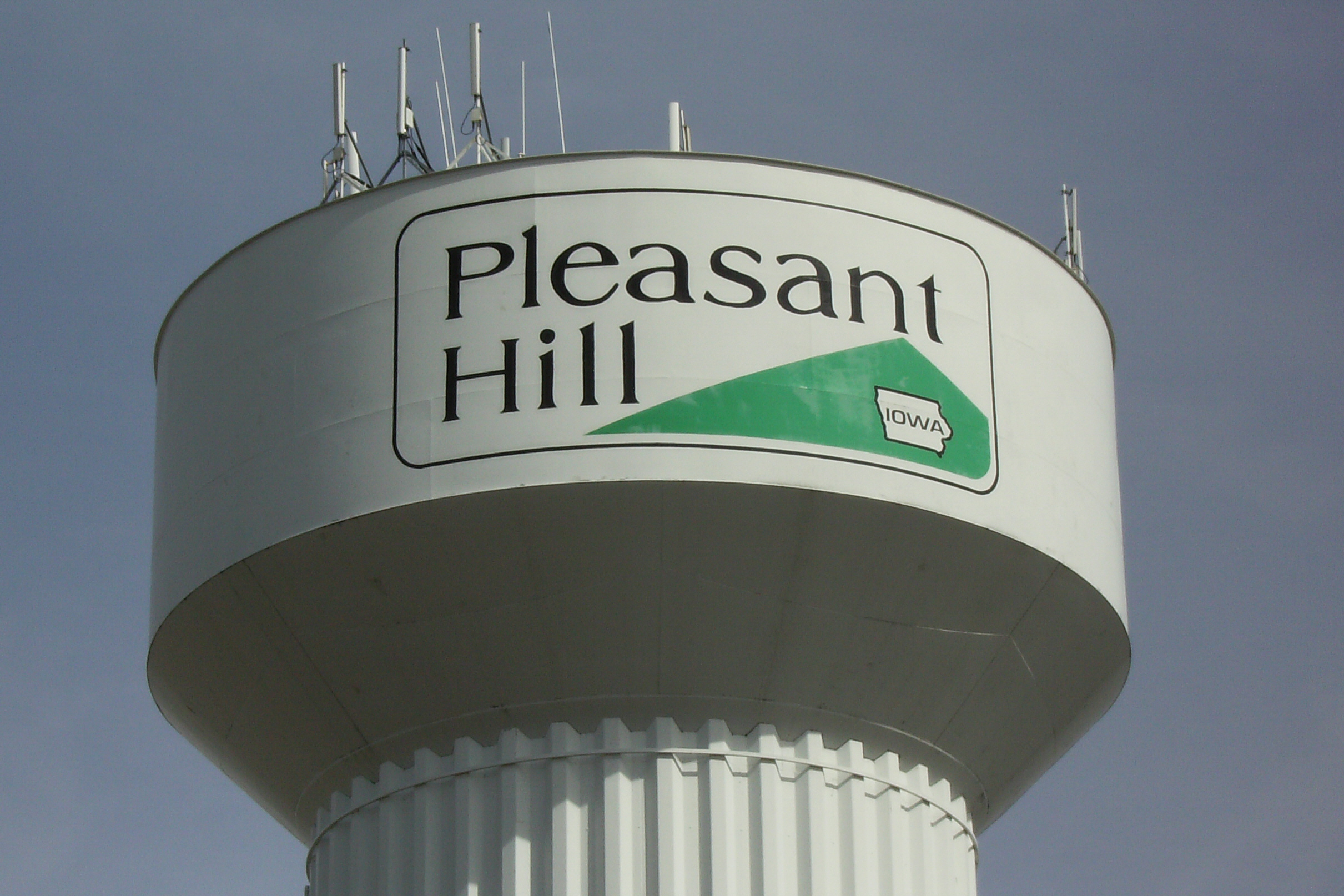 Pleasant Hill, Iowa, water tower